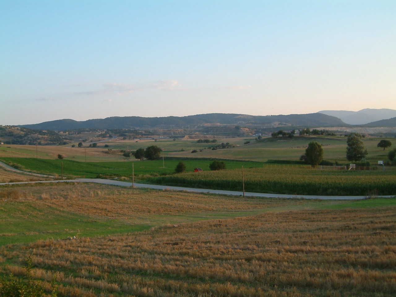 Vevi, Florina, Greece. View on the lignite mines south of the village.